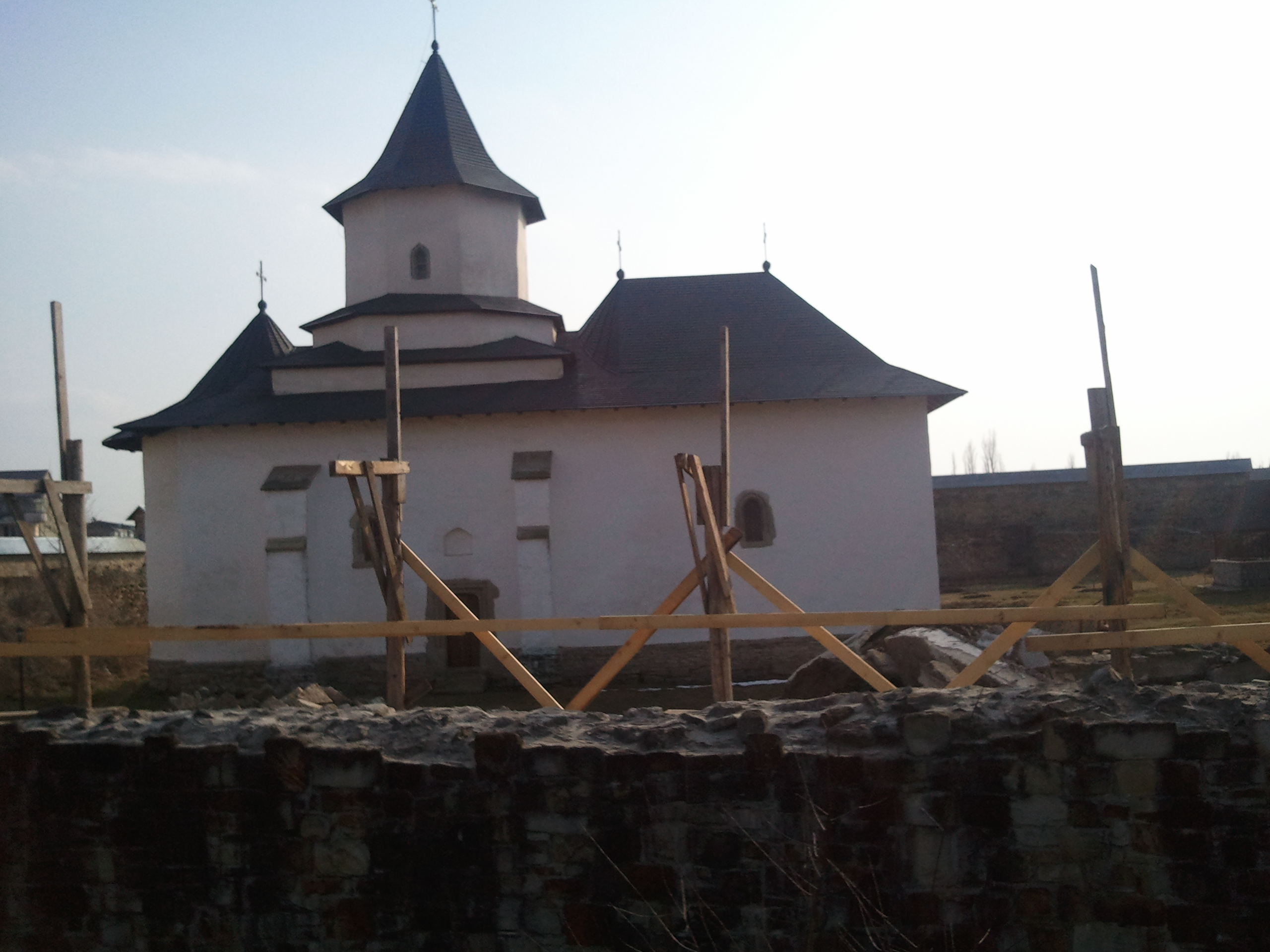 Zamca Monastery in Suceava - St. Auxentie Church.